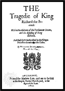 Title page of Richard II, from the fifth quarto, published in 1615.